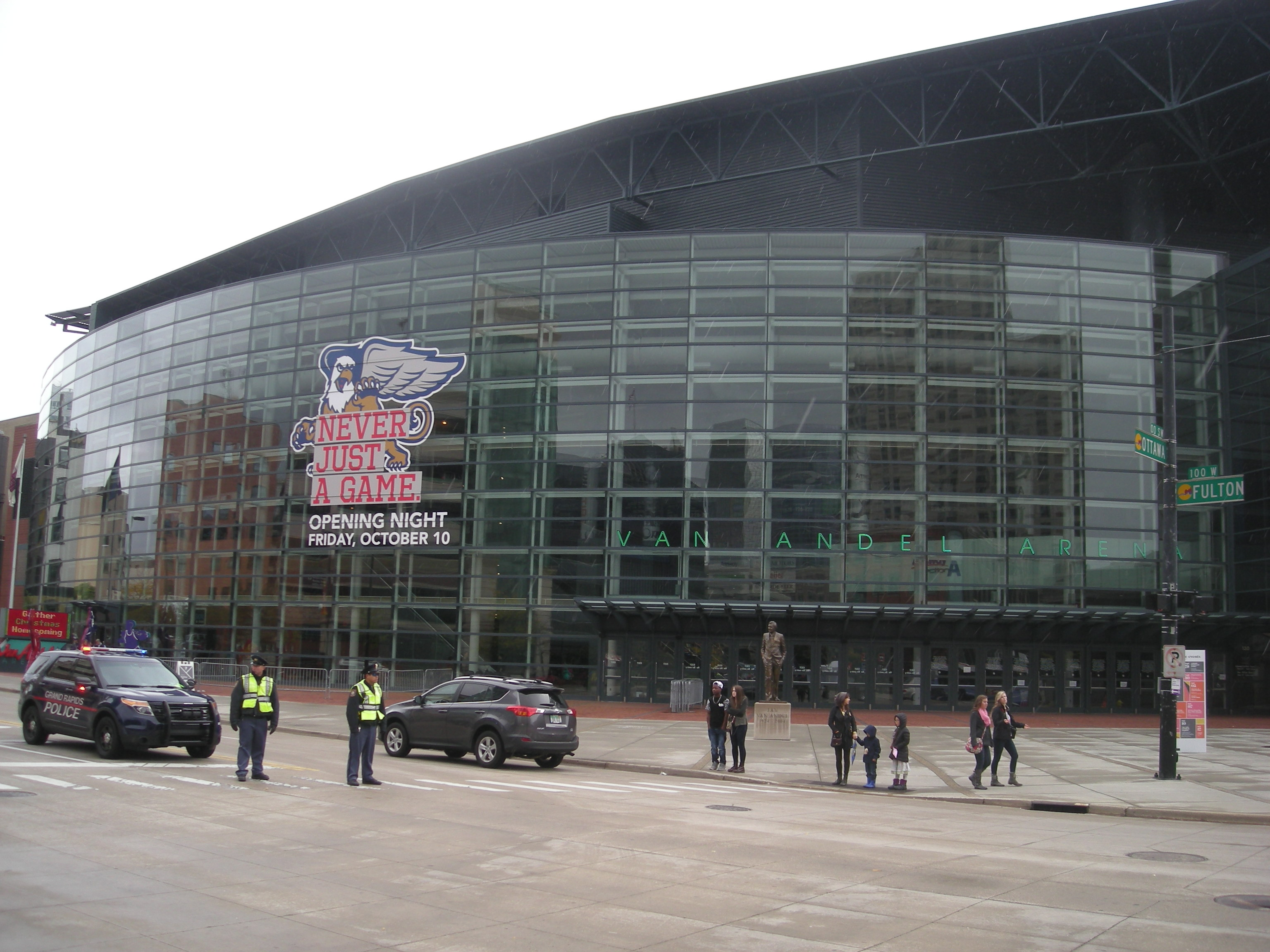 The Van Andel Arena in Grand Rapids, Michigan (United States).